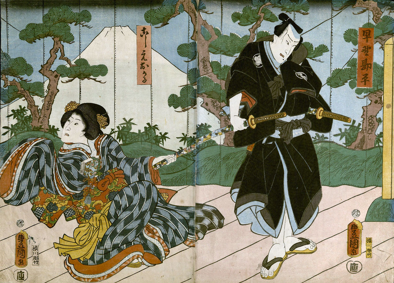 Woodcut depicting Chūshingura (47 Rōnin) by Utagawa Kunisada (1823-1880). TS 435.13, Harvard Theatre Collection, Houghton Library, Harvard University